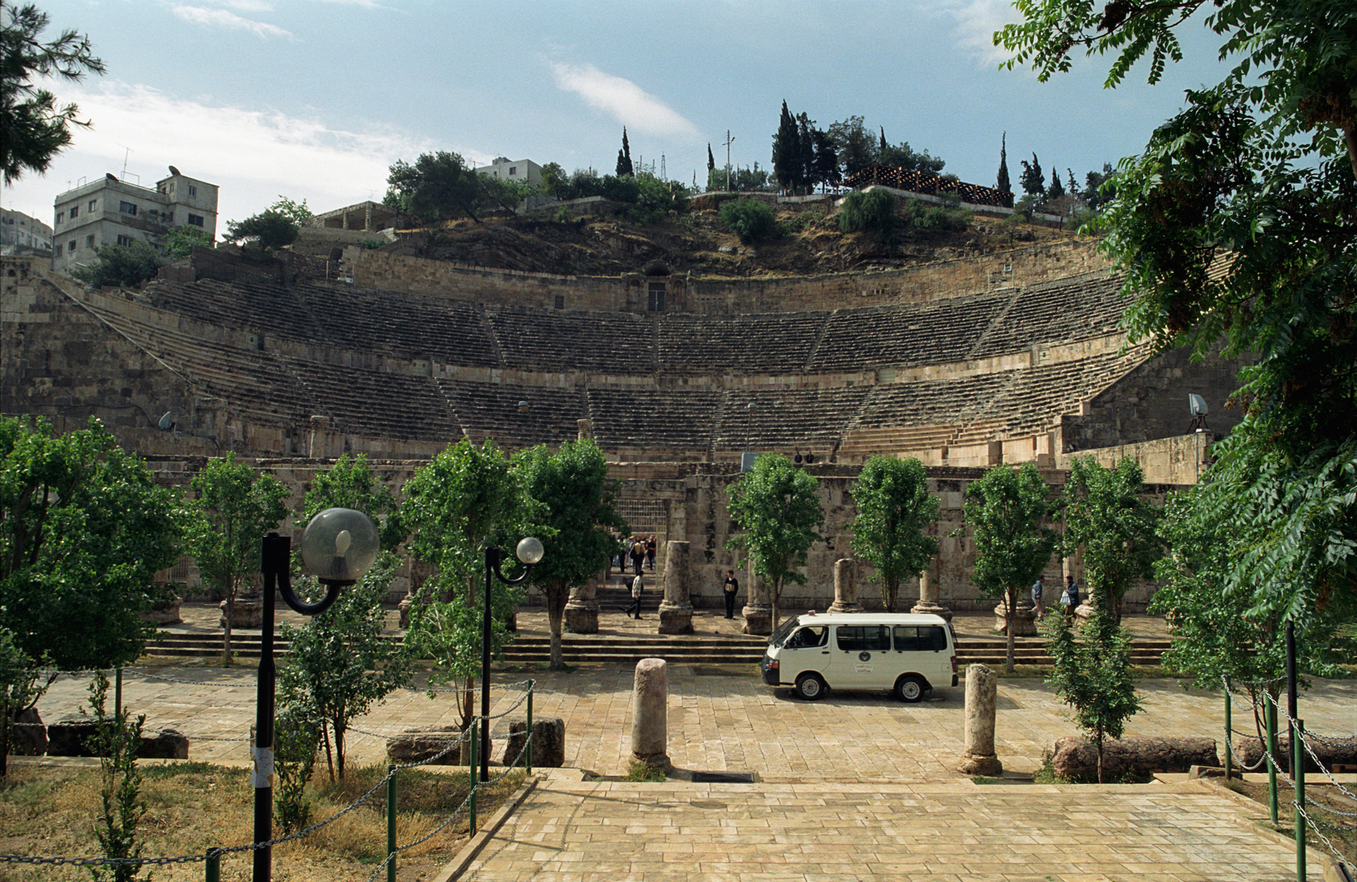 roman theater in Amman, Jordan